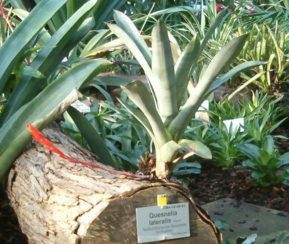 At Botanical Gardens Berlin-Dahlem Species Quesnelia lateralis